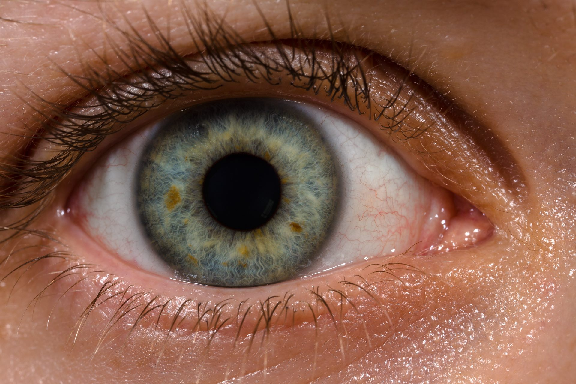 Photo of a human eye of a male European.